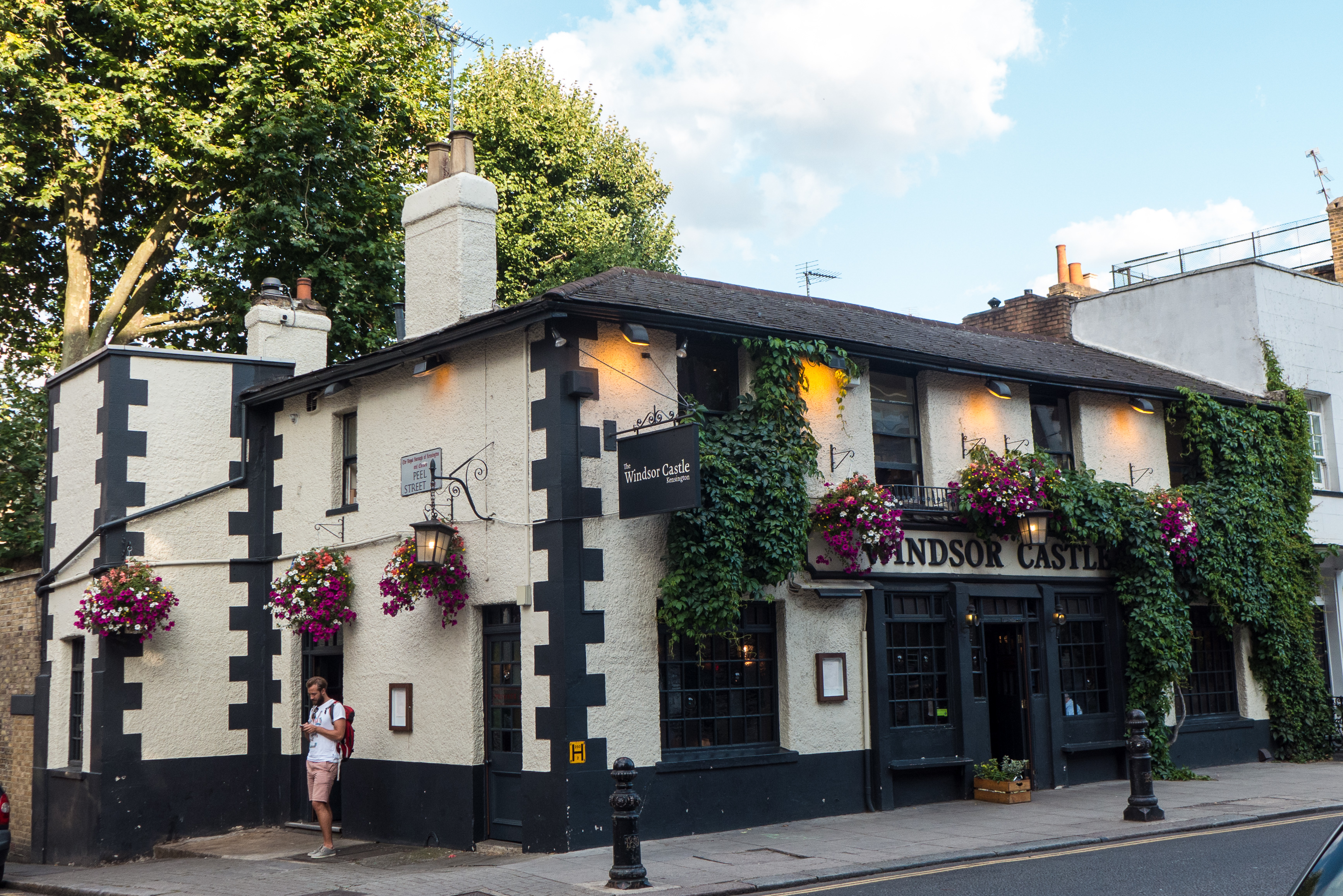 A rather lovely pub in a leafy area. (Older photo of it.) Address: 114 Campden Hill Road (formerly Campden Hill West). Owner: Mitchells and Butlers [Metro Professionals] (website); Charrington (former). Links: London Pubology